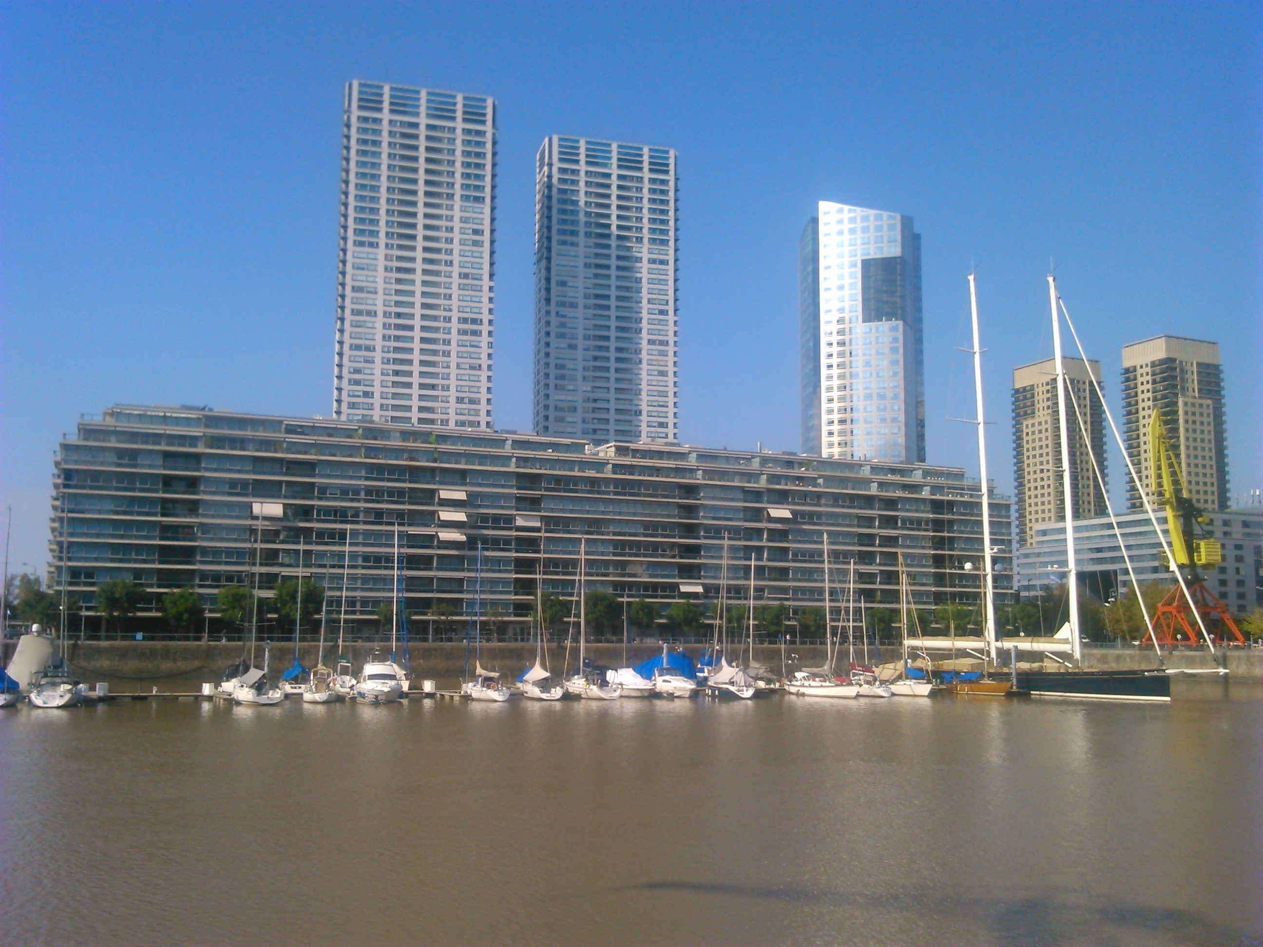 En este Skyline de los Edificios que se emplazan al costado Este del Dique 4 de Puerto Madero puede observarse en primer plano el Edificio Madero Center, y de izquierda a derecha las Torres del Yacht (Torres Gemelas), la Torre YPF y las Torres River View (Torres Gemelas). Foto tomada por mi, Usuario EncicloPaulo el día 15 de mayo del año 2015 a las 14:00 hs